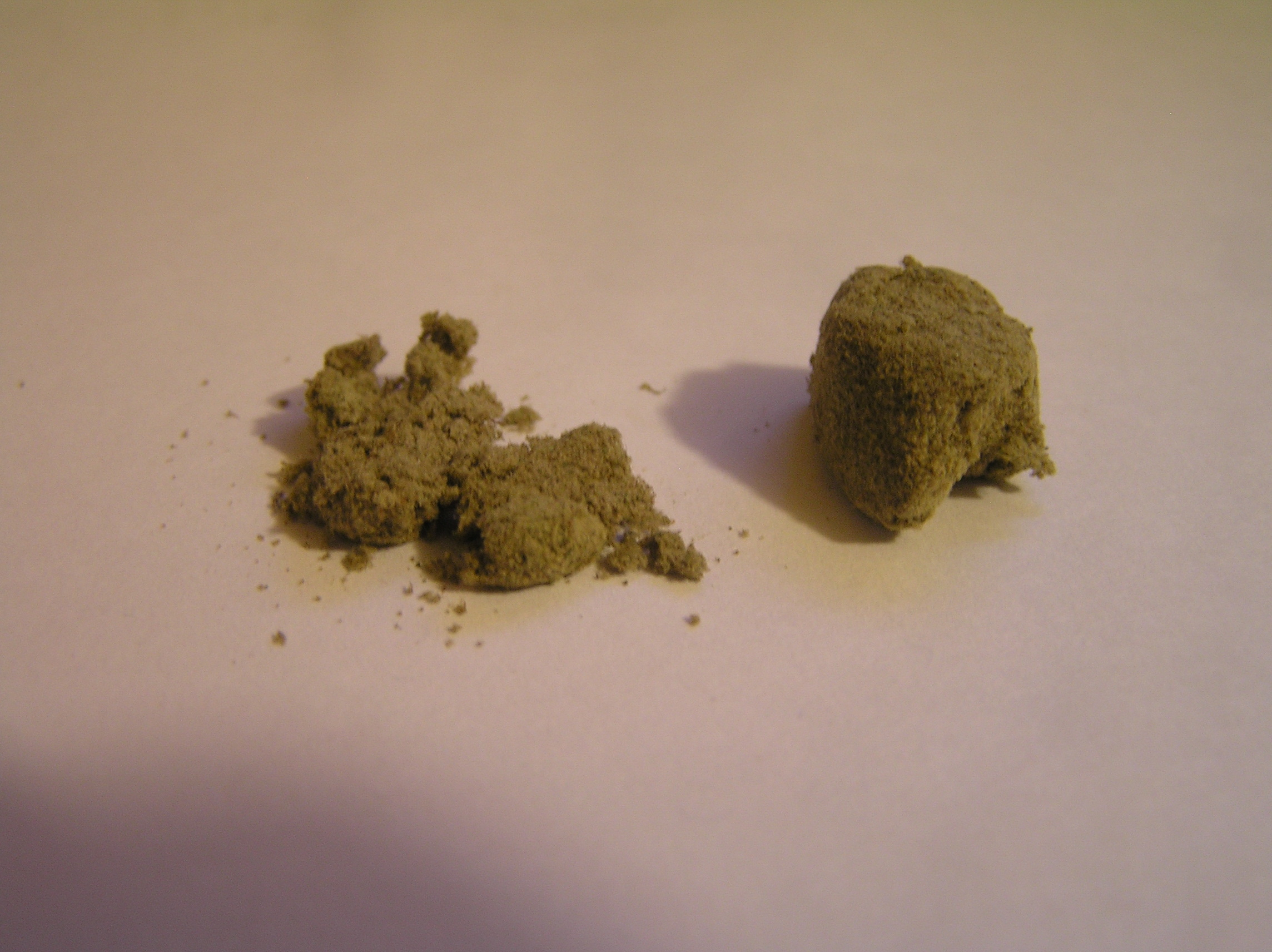 Approx. .75 grams of Kief (or Keef, Kif, Kef)